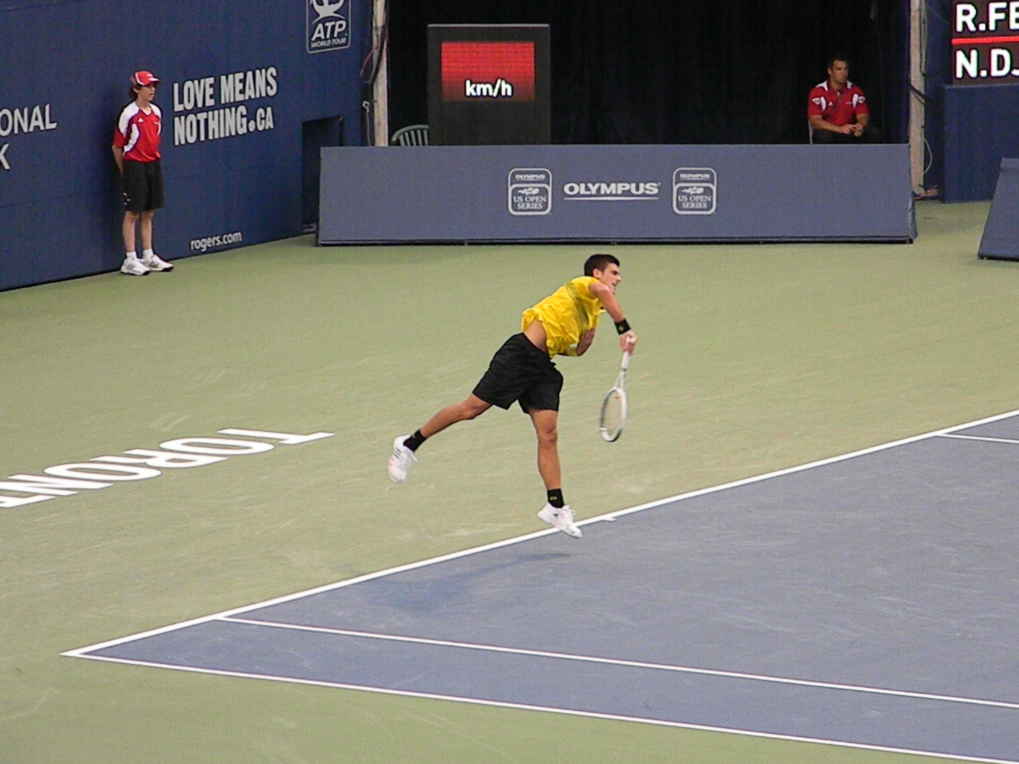 Novak Đoković vs Roger Federer on 2010 Rogers Cup Semifinal game in Toronto, Rexall Centre 1:2 (1:6, 6:3, 5:7)